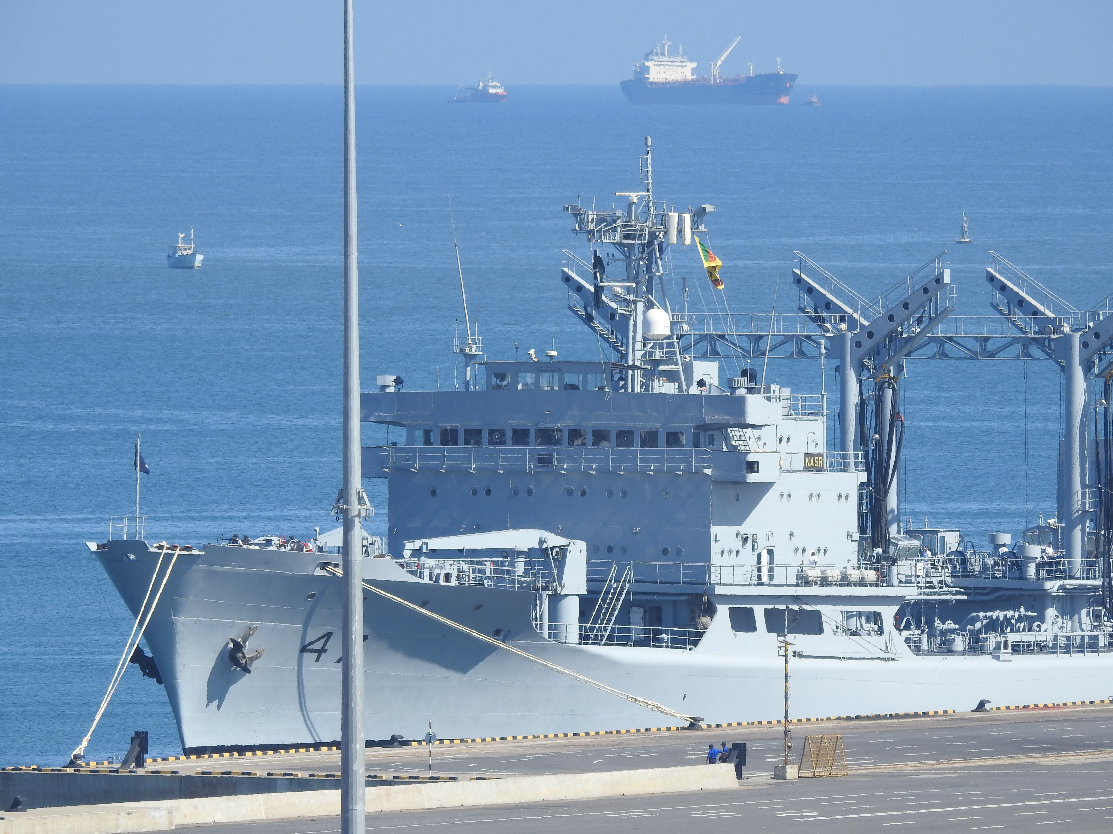 Photos of current/future skyscrapers (and its surroundings) in Colombo, taken by User:Rehman and User:Azeez as part of a photowalk project by Wikimedia Community User Group Sri Lanka. The photowalk covered most of the tallest structures in Colombo that are either completed or under construction. Further information on the subject(s) of the photograph can be found in the category/ies of this file.